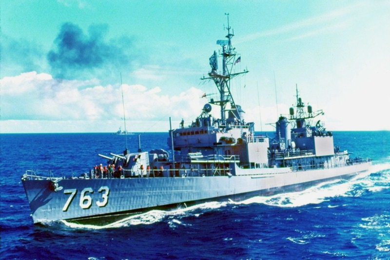 A U.S. Navy Gearing-class destroyer USS William C. Lawe (DD-763) coming alongside the the destroyer tender USS Yosemite (AD-19) during "Operation Springboard" in the Atlantic Ocean, circa 1967.